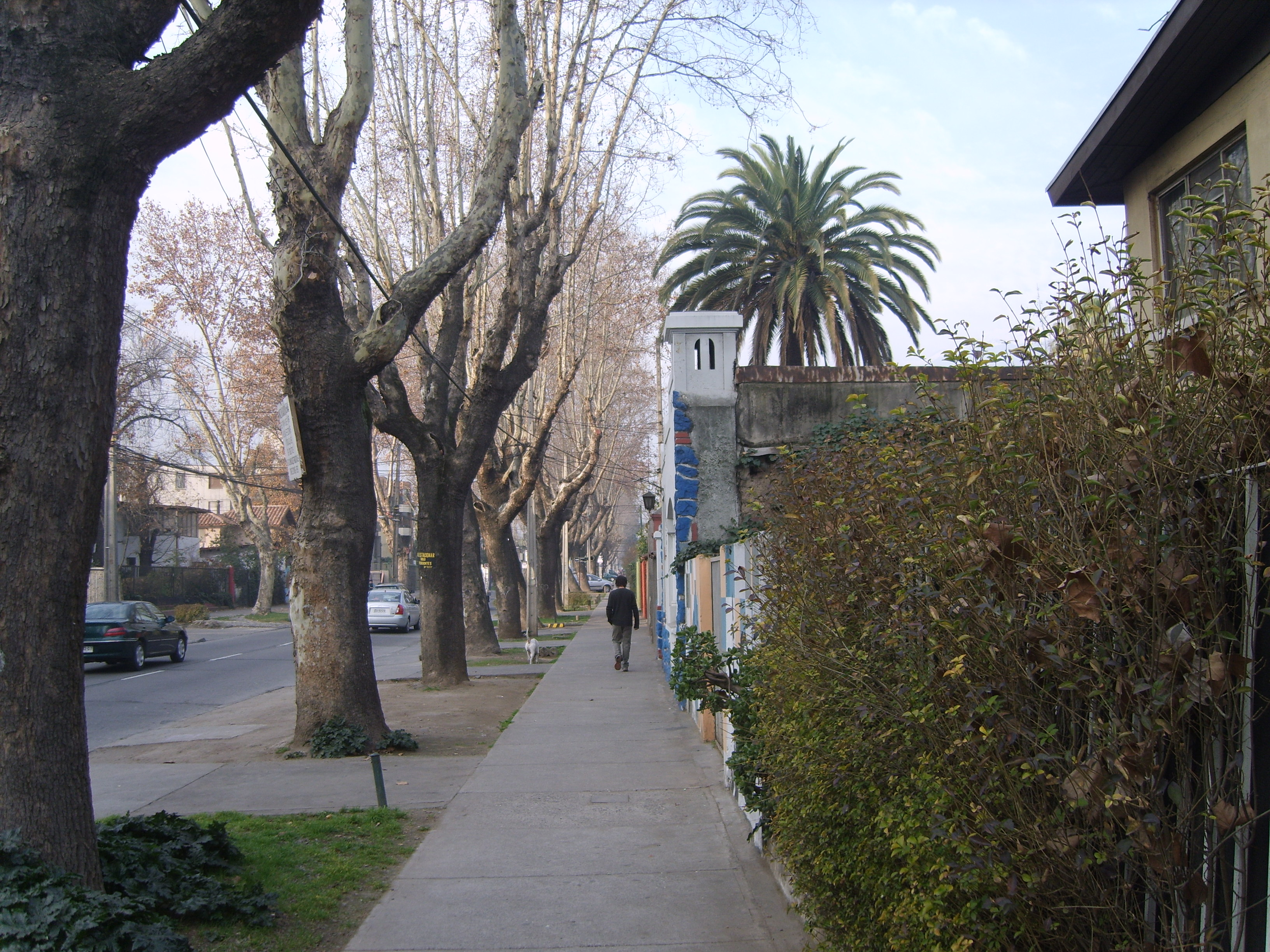 Avenida Simon Bolivar in La Reina commune of Chile